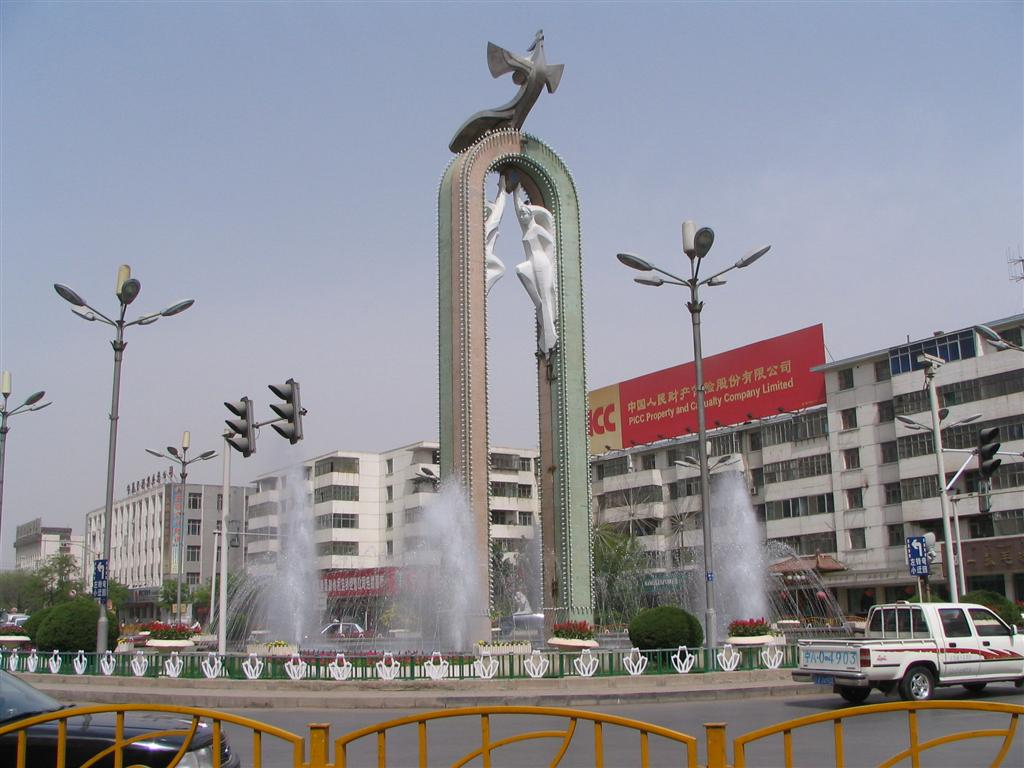 Phoenix Tablet, Yinchuan. Self taken